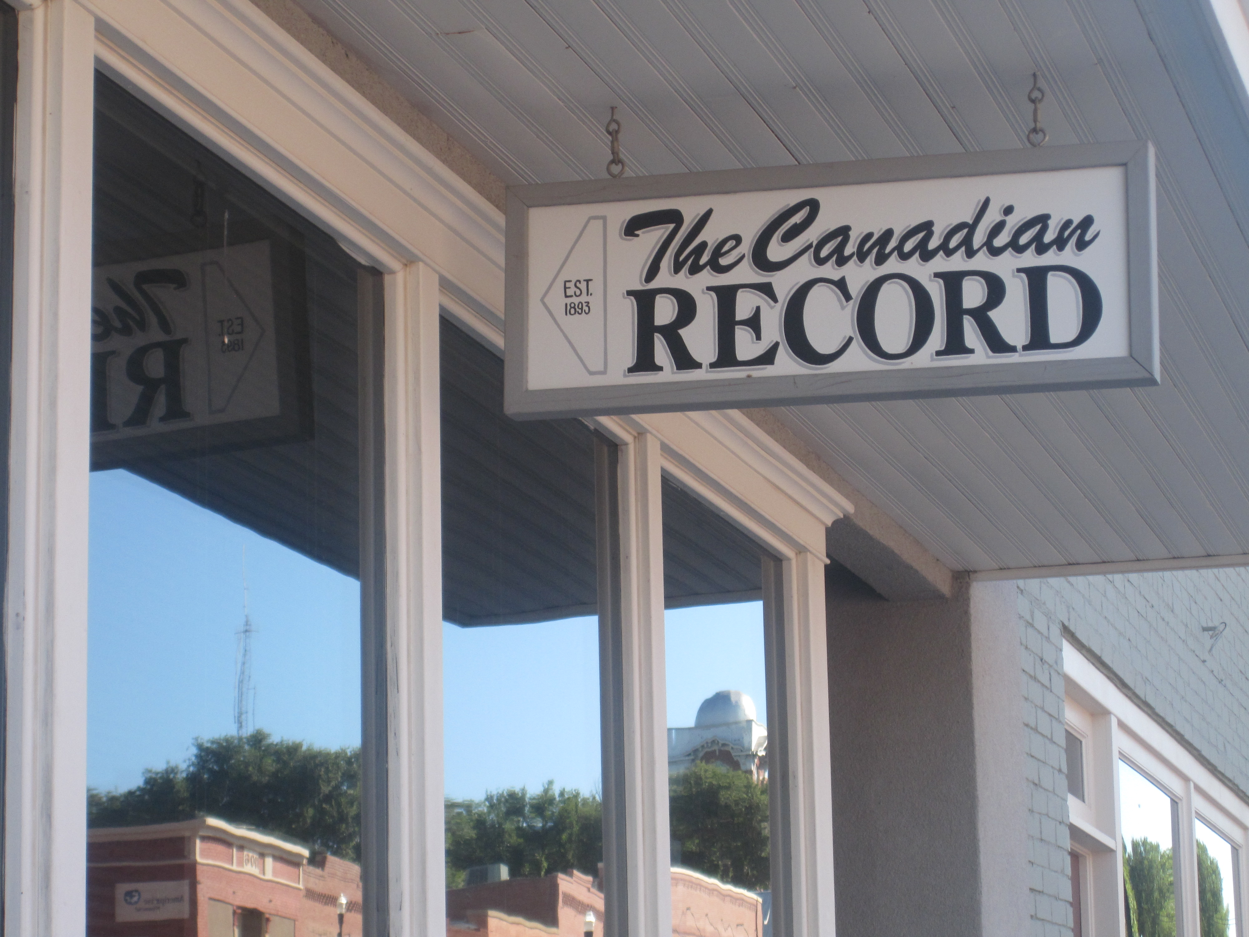 I took photo with Canon camera in Canadian, TX.